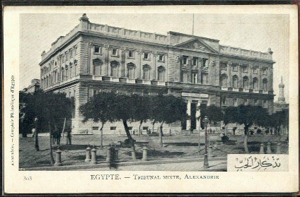 Published by Comptoir Philatélique d'Egypte Alexandria old drawings